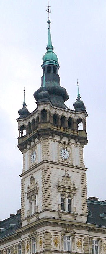 Tower of Town Hall in Bielsko-Biała.